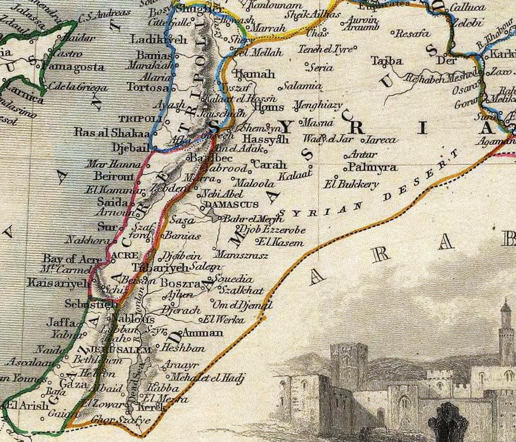 Turkey In Asia. The Illustrations by H. Warren & Engraved by J.B. Allen. The Map Drawn & Engraved by J. Rapkin.